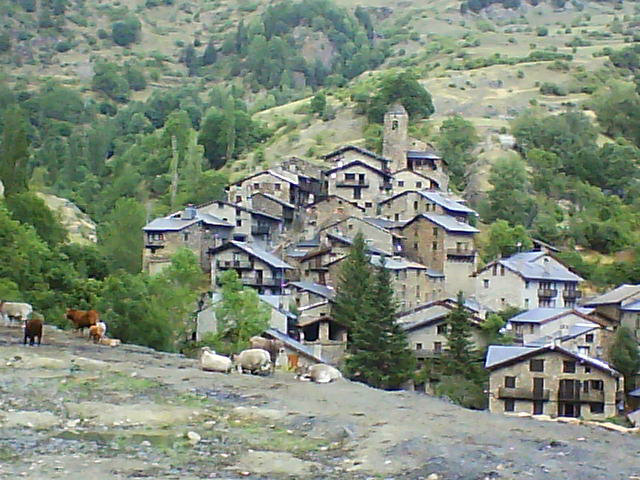 Os de Civis (Catalunya, Spain)